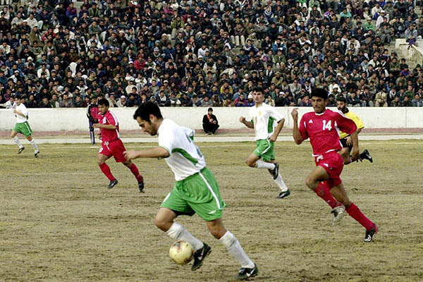 Match scene between Afghanistan and Turkmenistan (WC qualifier 2006) in Kabul